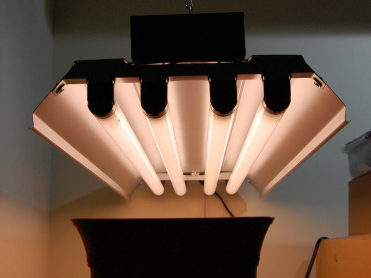 Fluorescent light fixture used for indoor gardening. Four F32T8 32 watt lamps.